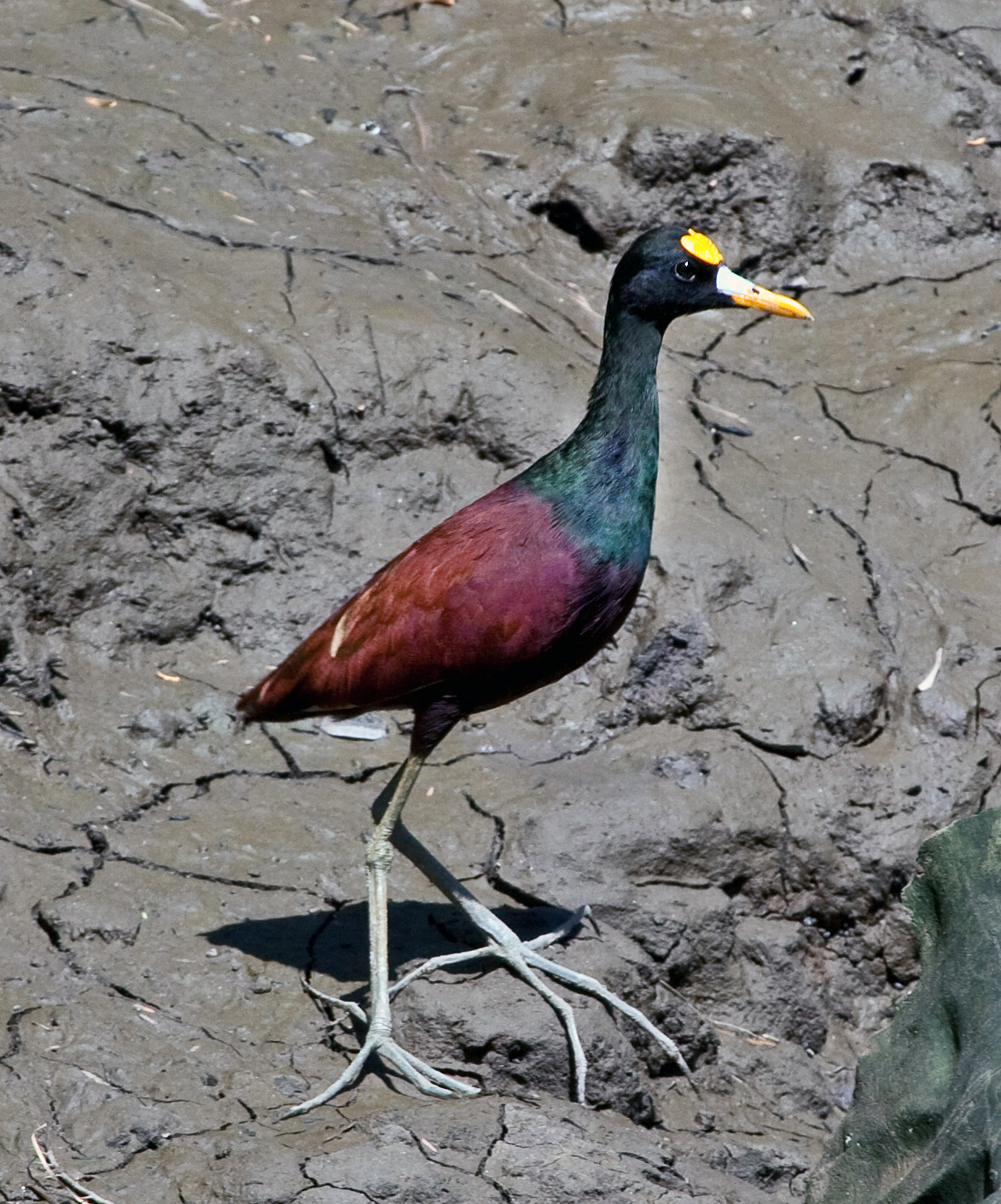 A Northern Jacana (also known as the Northern Jaçana) at Palo Verde National Park, Costa Rica.